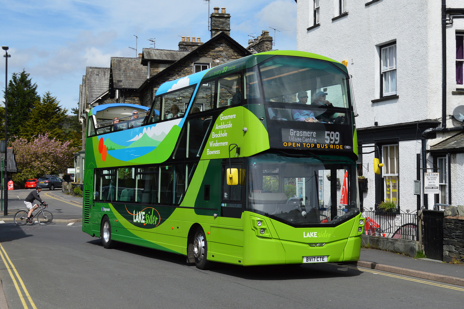 Stagecoach Cumbria & North Lancashire 'LakeSider' Volvo B5TL/Wright Gemini 3 13801 BX17CTE is pictured in Ambleside while opertaing its branded 599 service.